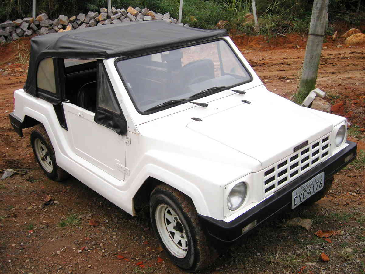 A Gurgel jeep. Taken by Aaron Brick July 9, 2004 in Ilhabela, Brazil.